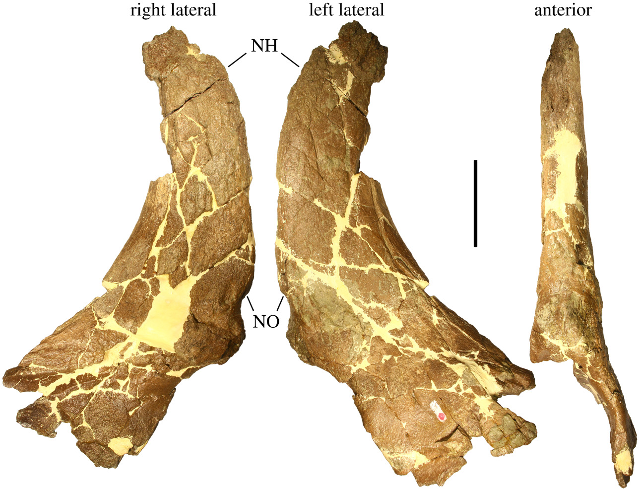 Nasal horncore of Stellasaurus ancellae holotype MOR 492 in right lateral, left lateral and anterior views. NH, nasal horncore; NO, nasal overgrowth. Scale bar 10 cm.